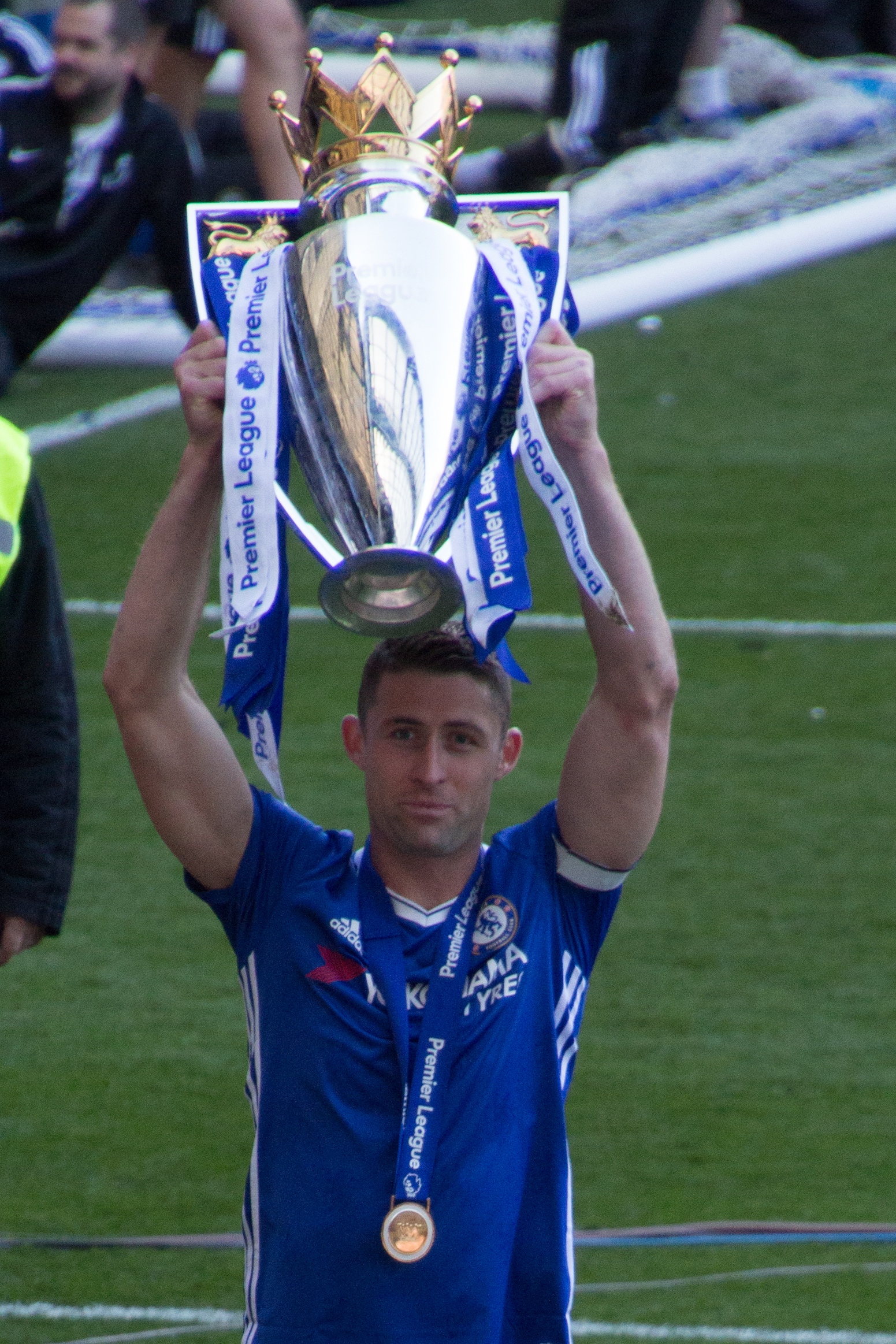 21.5.17 Post Match Celebrations